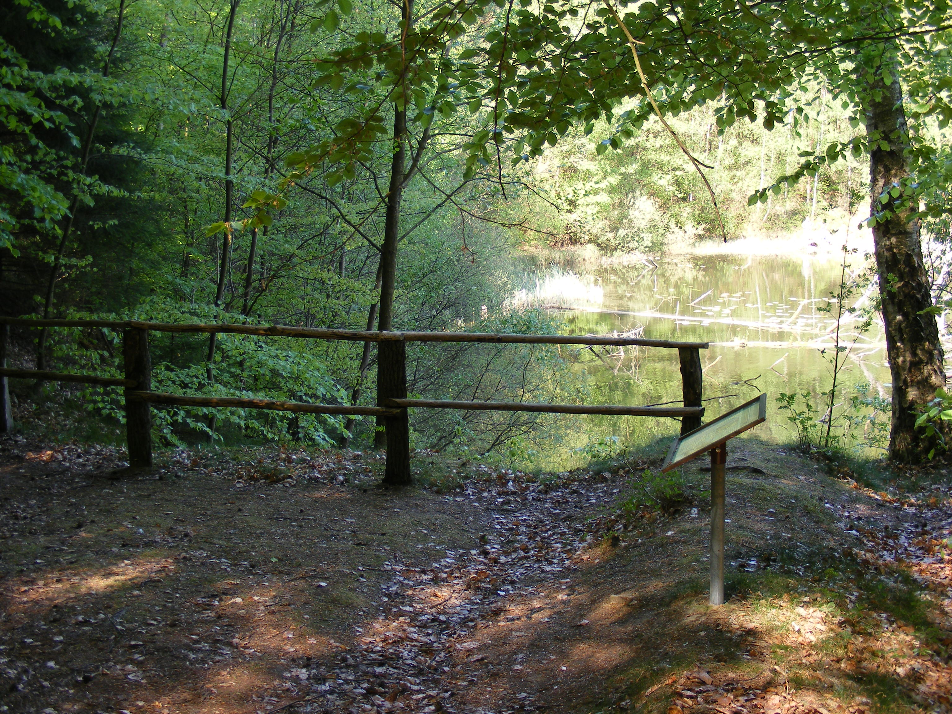 Schwarzer See (Black Lake) close to Sagsdorf, near Sternberg, Mecklenburg, Germany.